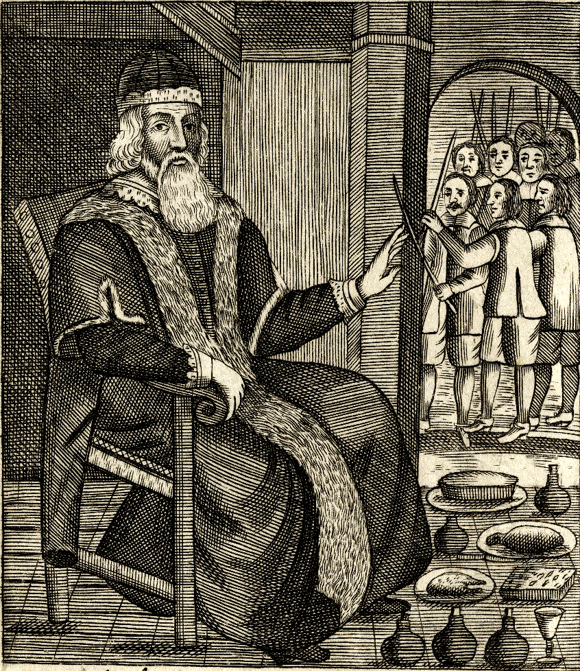 Frontispiece to Josiah King's pamphlet The Examination and Tryal of Old Father Christmas (1687). King had previously published a pamphlet with the very similar title The Examination and Tryall of Old Father Christmas in 1658 using the same image as frontispiece